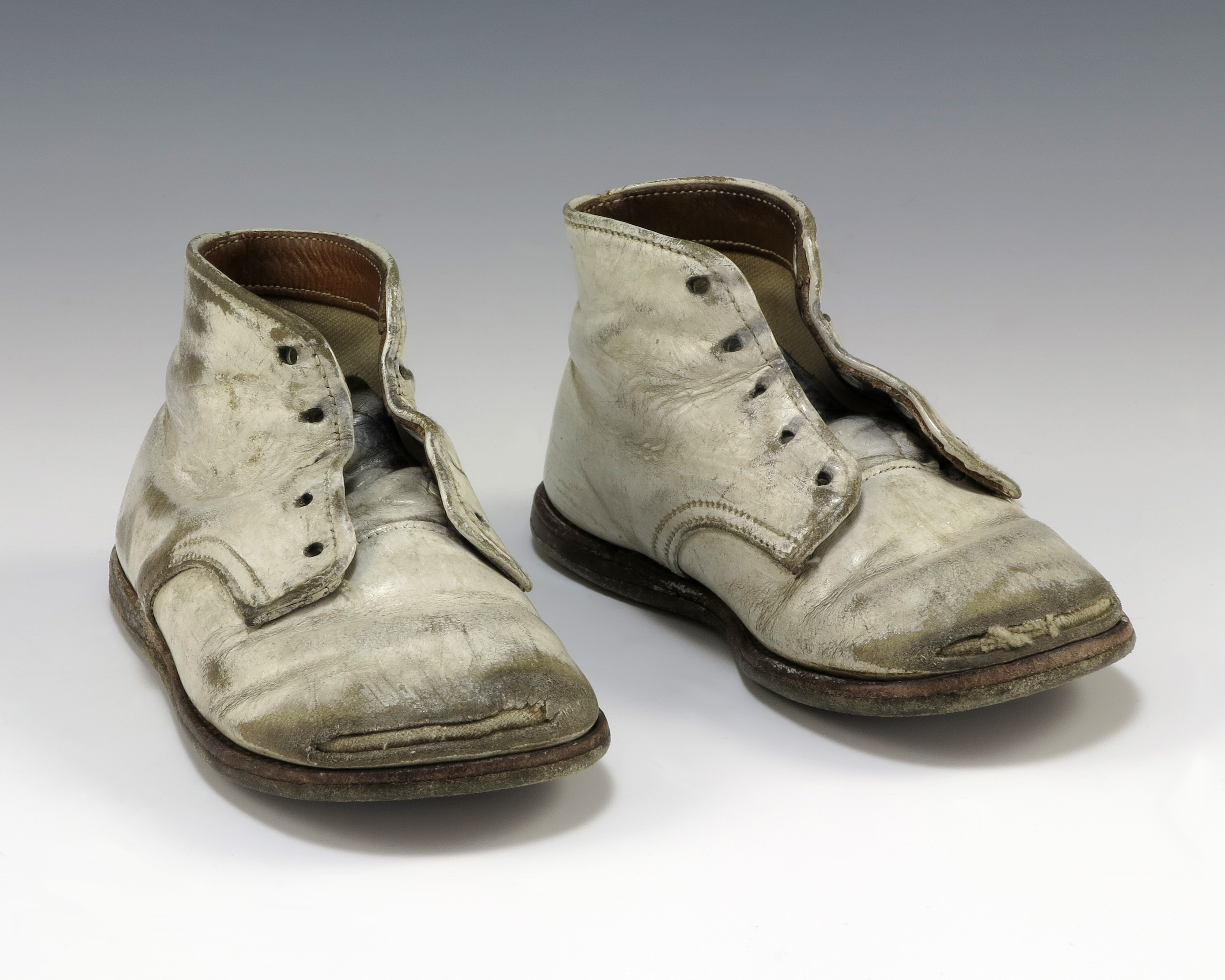 One of many pairs of well worn baby shoes worn by orphans evacuated from Vietnam during Operation Babylift. The operation involved a mix of U.S. military and civilian volunteers who airlifted thousands of orphaned children during the final evacuation of Vietnam in the spring of 1975.